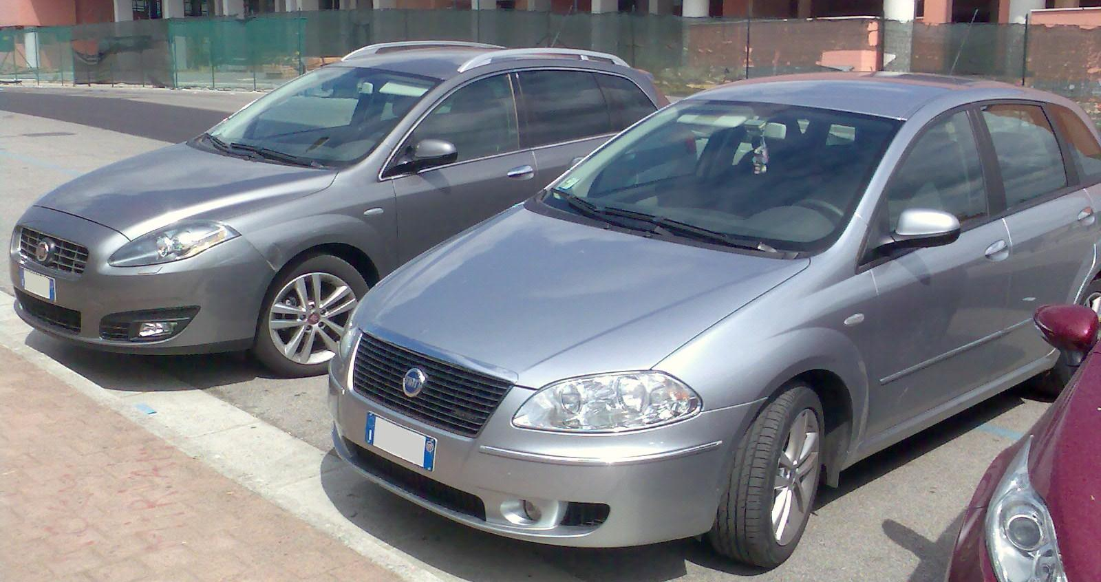 2 Fiat Croma